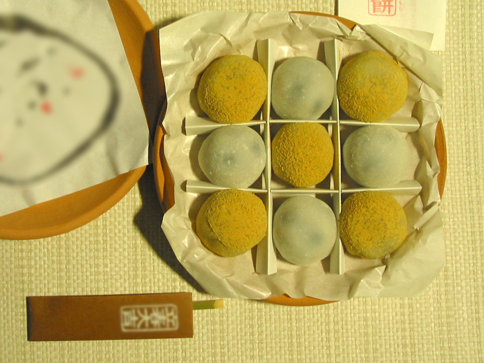 Tsuitachi-Mochi February limited version "Risshun Daikichi Mochi", Akafuku Ltd. De luxe version is in the Horakuyaki (china pan)